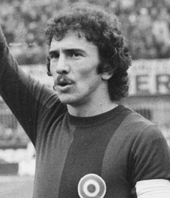 The Italian association football striker Giuseppe "Beppe" Savoldi playing for Bologna FC in the 1974-75 season wearing the cockade of the 1973-74 Italian Cup's winner. The photograph was first published in June 1975 on the Italian weekly sports magazine "Guerin Sportivo"